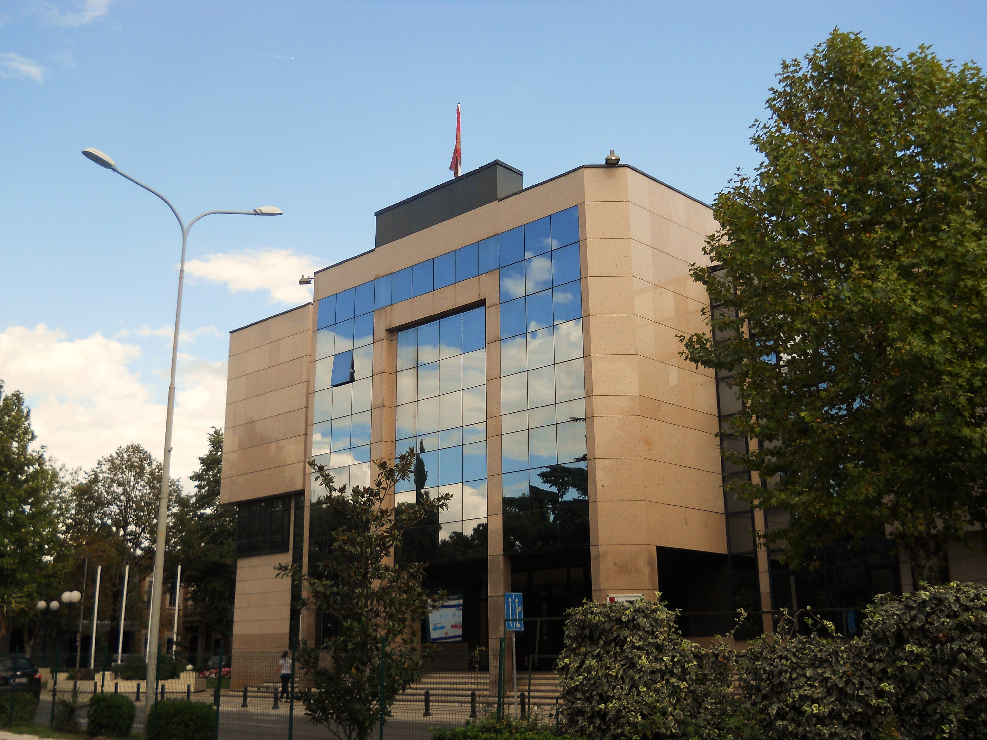 Montenegrin national theatre